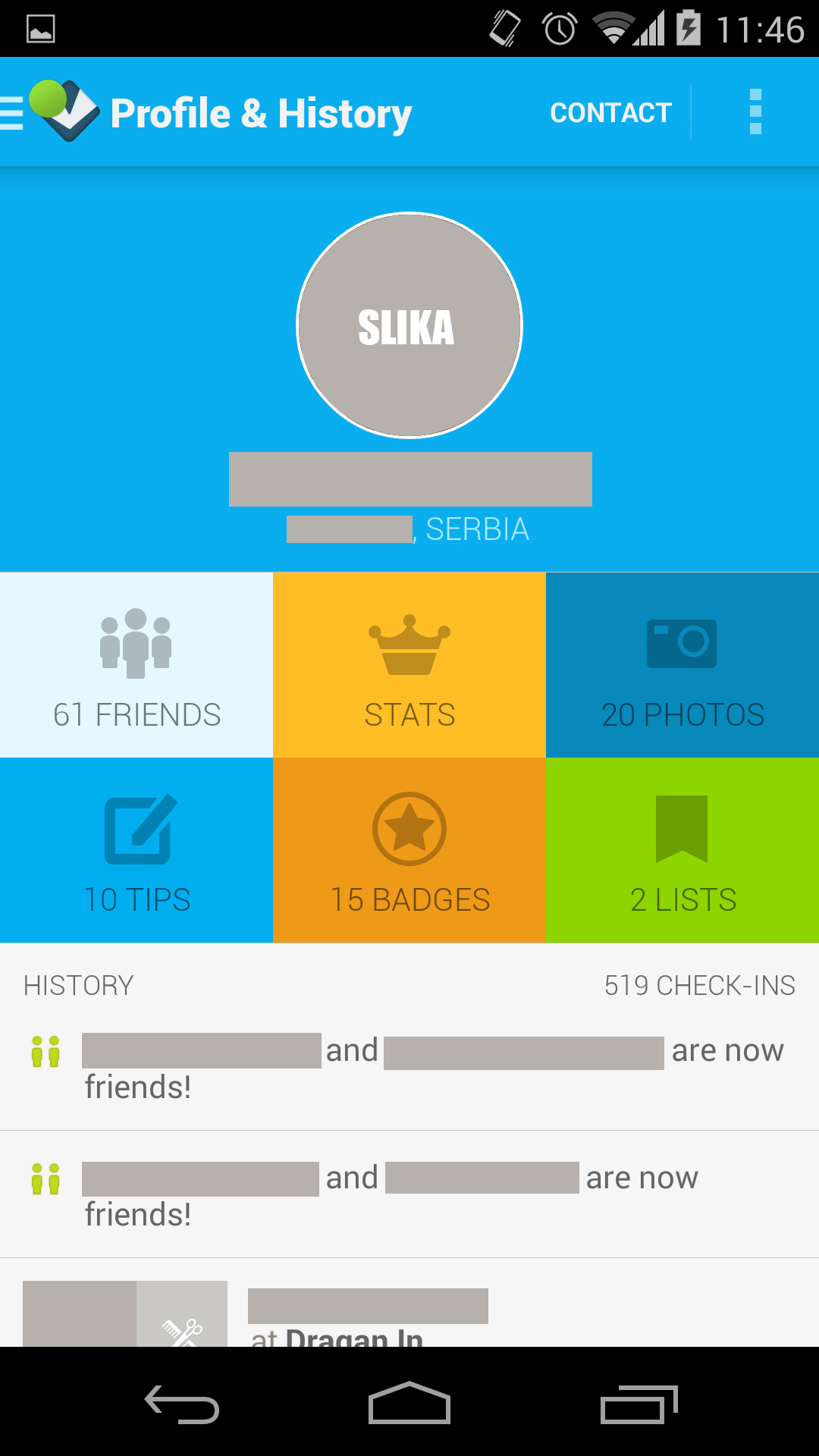 Foursquare profile